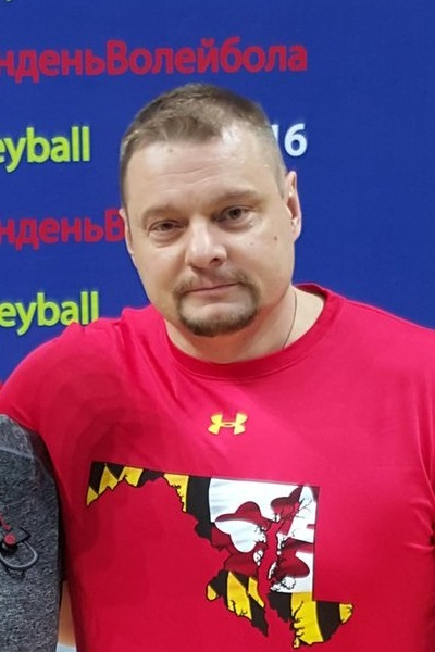 Vladimir Alekno, volleyball coach from Russia